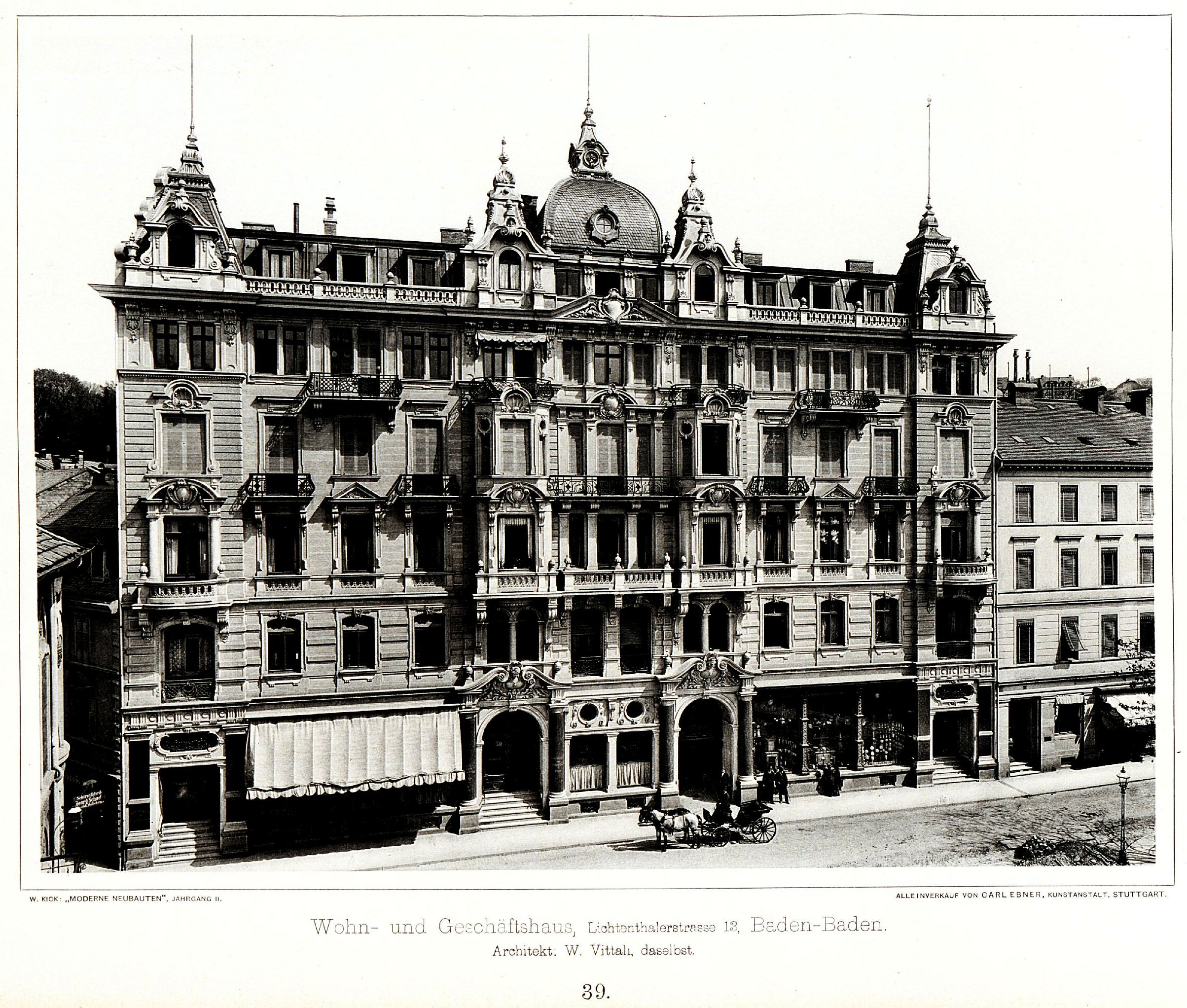 Wohn-_und_Geschäftshaus,_Lichtenthalerstrasse_13,_Baden-Baden,_Architekt_W._Vittali_Baden-Baden,_Tafel_39,_Kick_Jahrgang_II.jpg